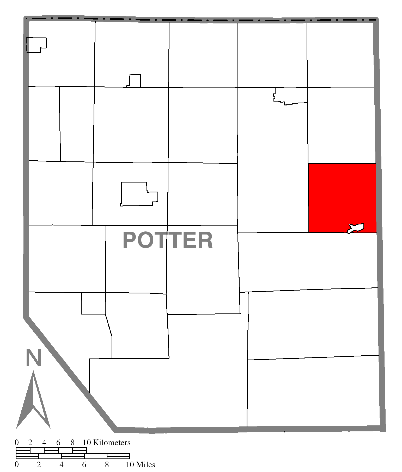 A map of Potter County showing Pike Township, Pennsylvania (alternate) highlighted on the map.